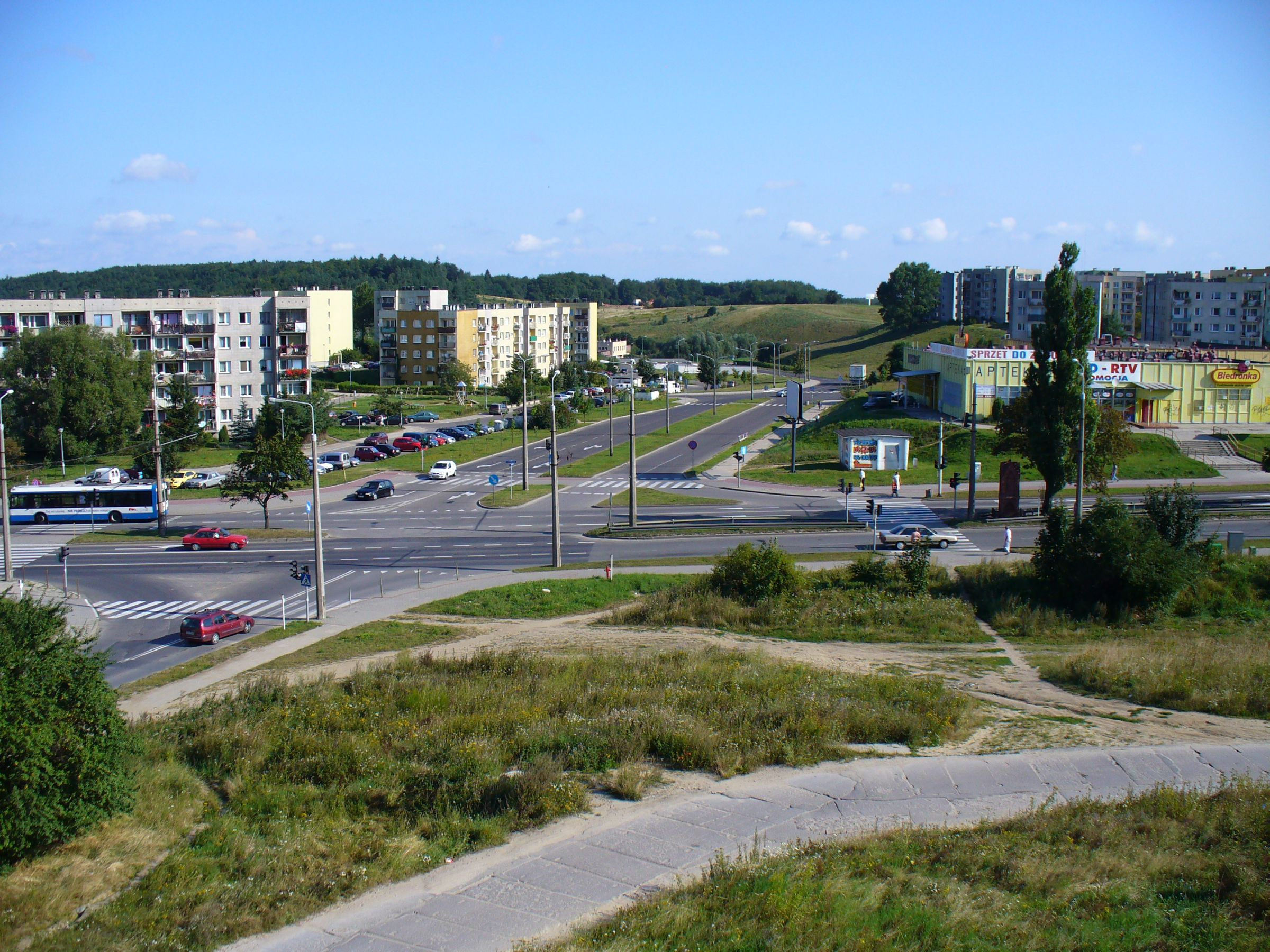 Poland, Gdynia-Karwiny